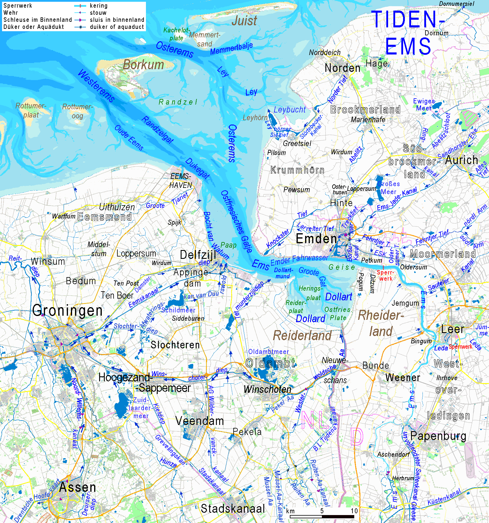 Estuary of river Ems; two levels of mudflats and four ground levels of tidal waterbodies distingushed by colour, different colour for waterbodies separated from tidal influence. Wihtout artificial shelter, almost all waterbodies in the region shown in this map would be liable to the tides. This map may be incomplete, and may contain errors. Don't rely solely on it for navigation.